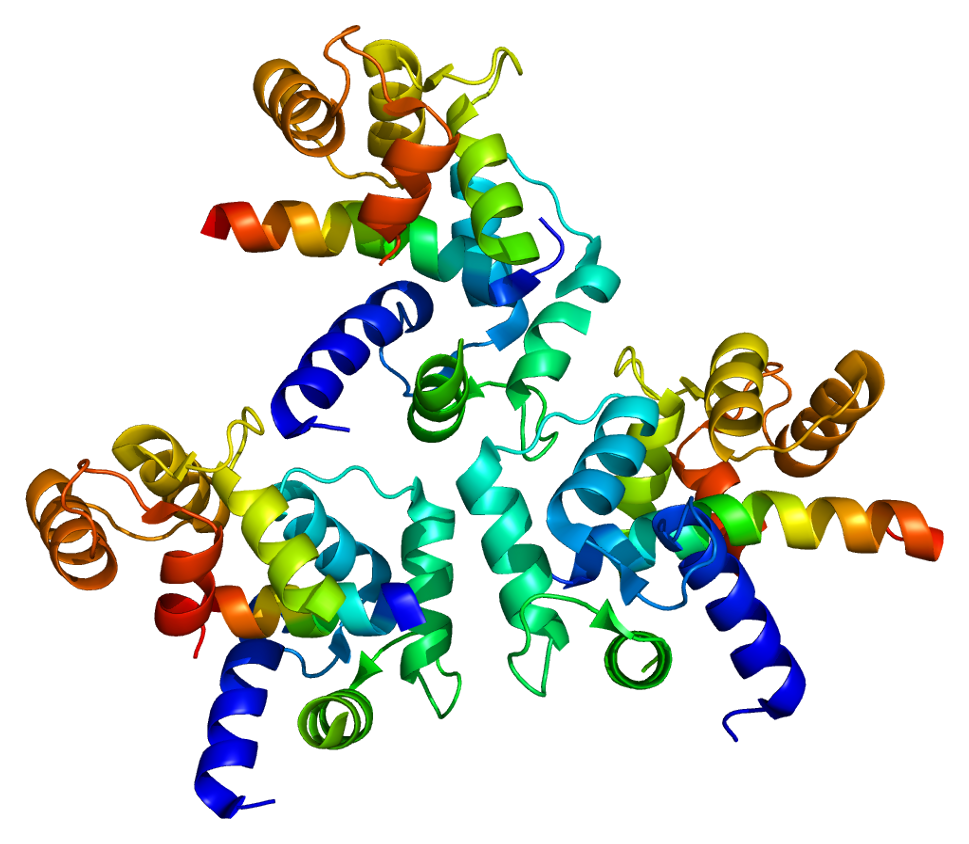 Structure of the CACNA1D protein. Based on PyMOL rendering of PDB 2be6.